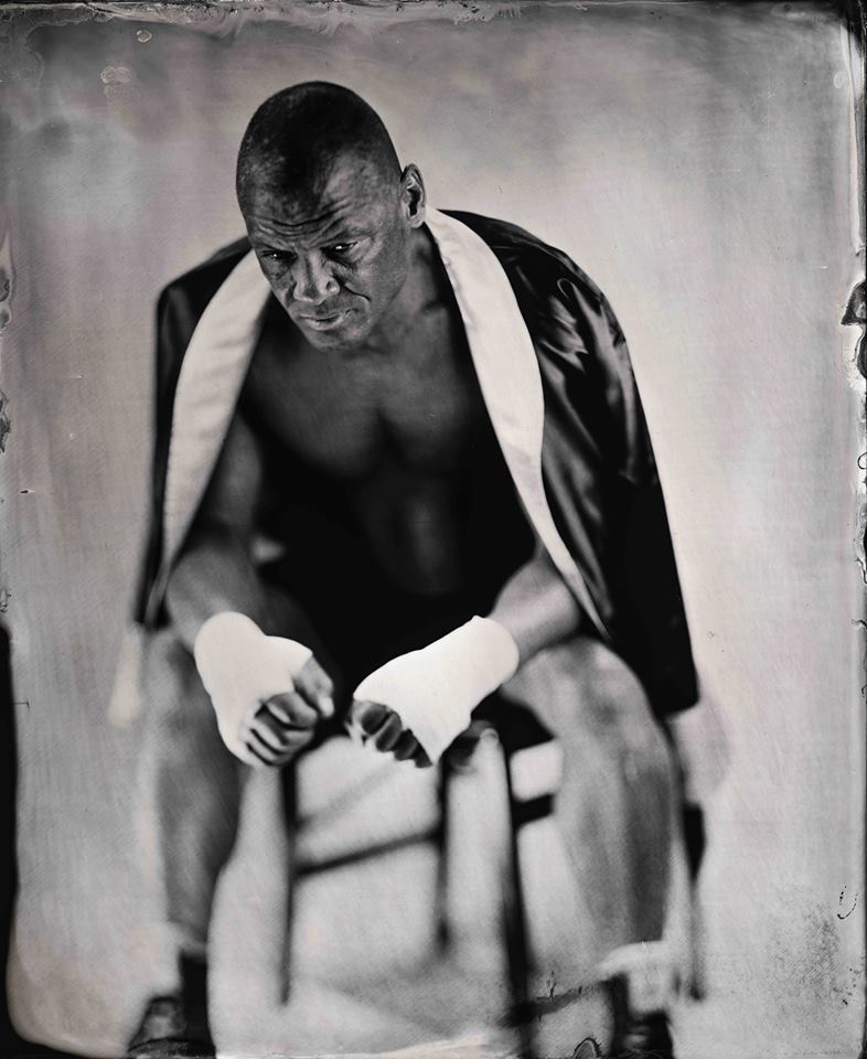 "One Last Stand," A wet plate collodion photograph of Virgil "Quicksilver" Hill by Shane Balkowitsch.